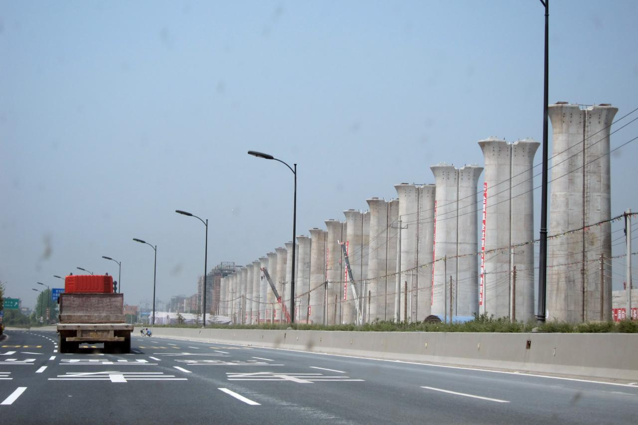 High-speed rail construction Zhejiang Province